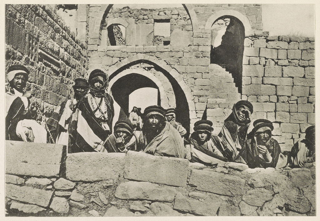 Title: Derʻâh Beduinen und Bauern. 1906. Abstract/medium: 1 photograph ; photomechanical print.